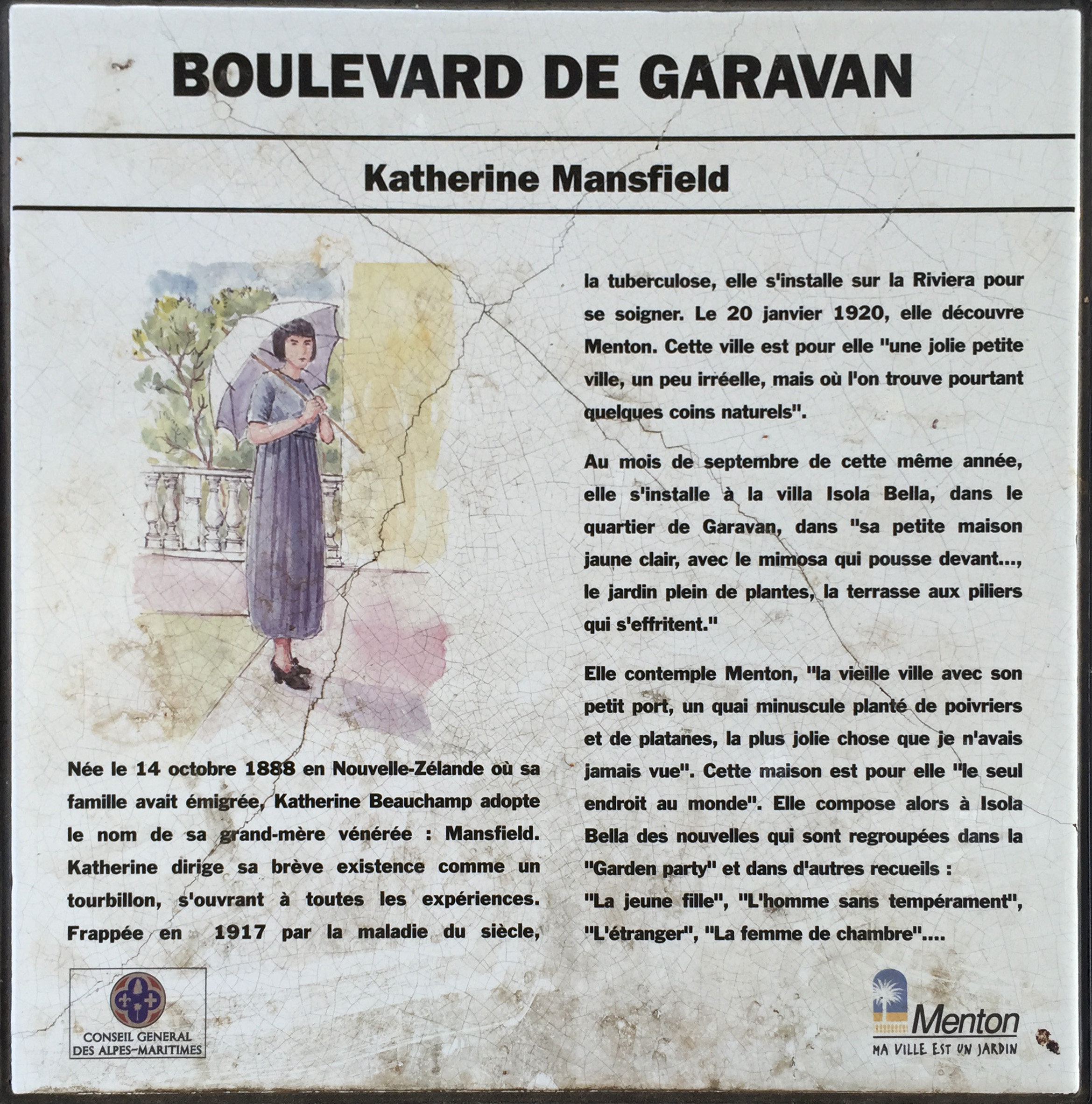 A commemorative plaque to short-story author Katherine Mansfield in France